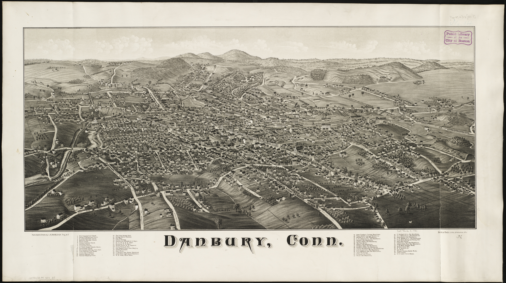 Zoom into this map at . Author: Burleigh, L. R. Publisher: L.R. Burleigh Date: [1884?] Location: Danbury (Conn.) Scale: Not drawn to scale. Call Number: G3784.D2A3 1884.B8